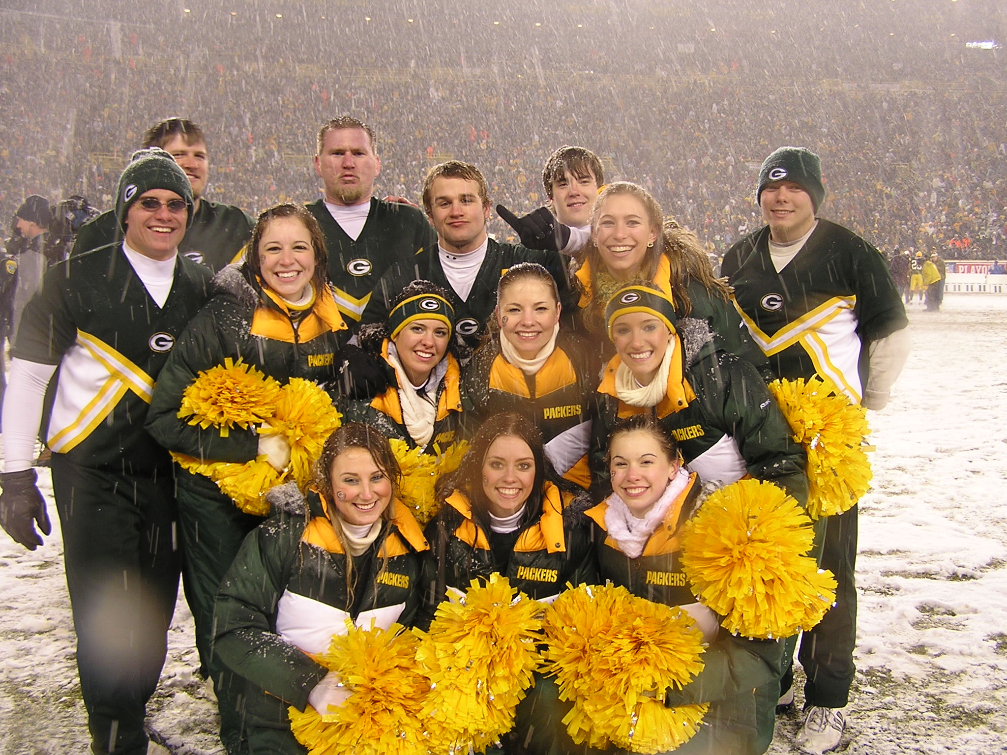 Divisional Playoffs: 1/12/2008 Green Bay Packers vs. Seattle Seahawks